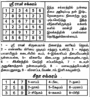 An image of Sri Rama Chakram and Seetha Chakram as given in Pambu Panchangam.